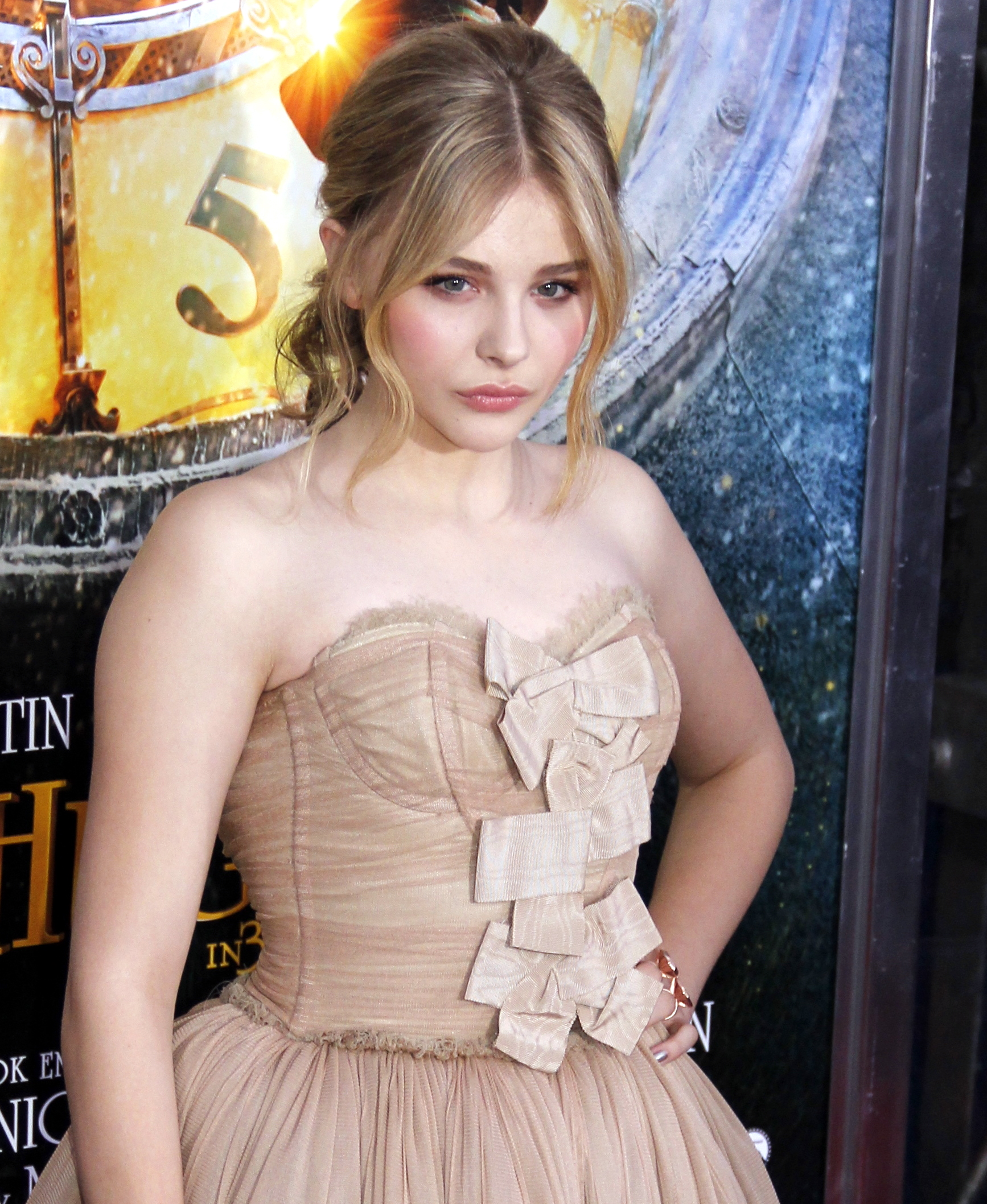 Chloë Grace Moretz at the Hugo Premiere, New York City 2011.